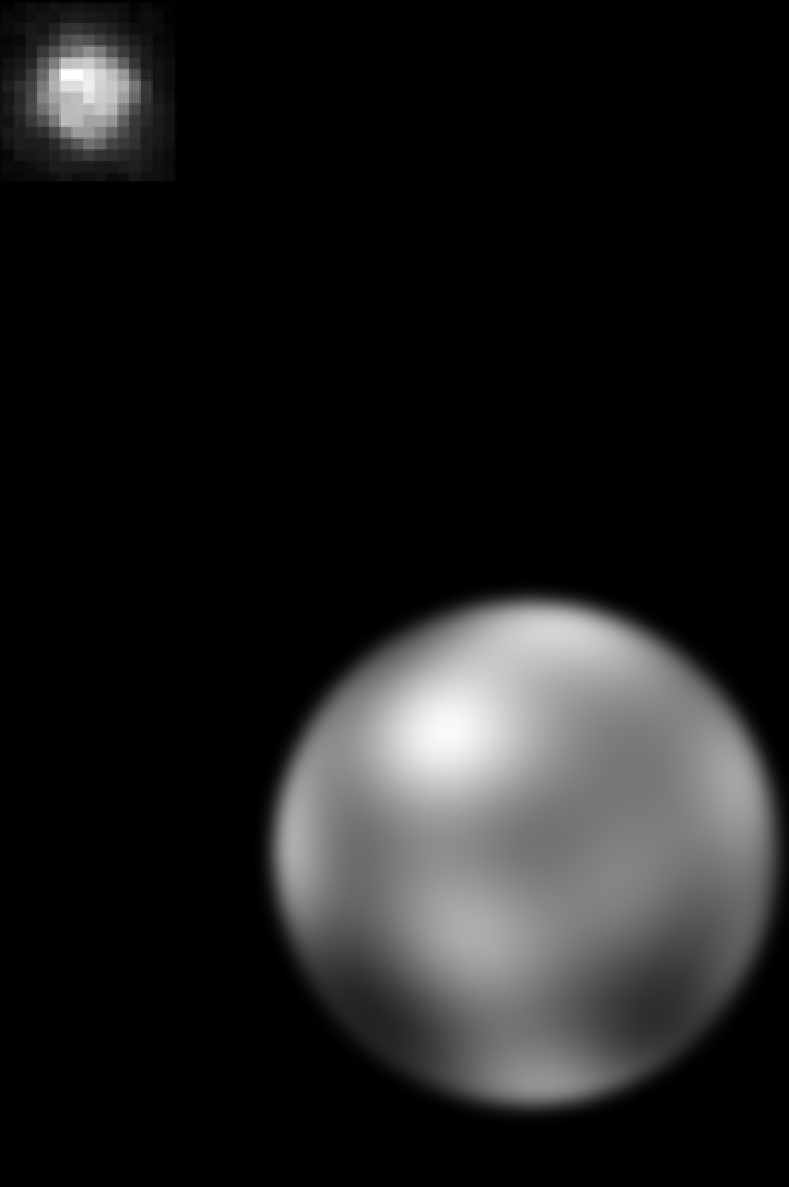 Pluto twice, raw data (smaller image) and processed data (larger image), from the Hubble Space Telescope. Images of Pluto taken by the NASA Hubble Space Telescope with the ESA Faint Object Camera. These images, taken in late June and early July, 1994 are the first views which allow resolution of features on Pluto's surface. Opposite hemispheres are seen on the left and right. The large lower images are processed versions made from a number of Hubble observations. The smaller images at the top are actual raw images, each pixel is over 150 km across. The variations in brightness may be due to topographic features and/or surface composition, frost layers, and interactions with Pluto's nitrogen-methane atmosphere. Pluto is 2390 km in diameter and north is up. (HST, STScI-PR96-09a)